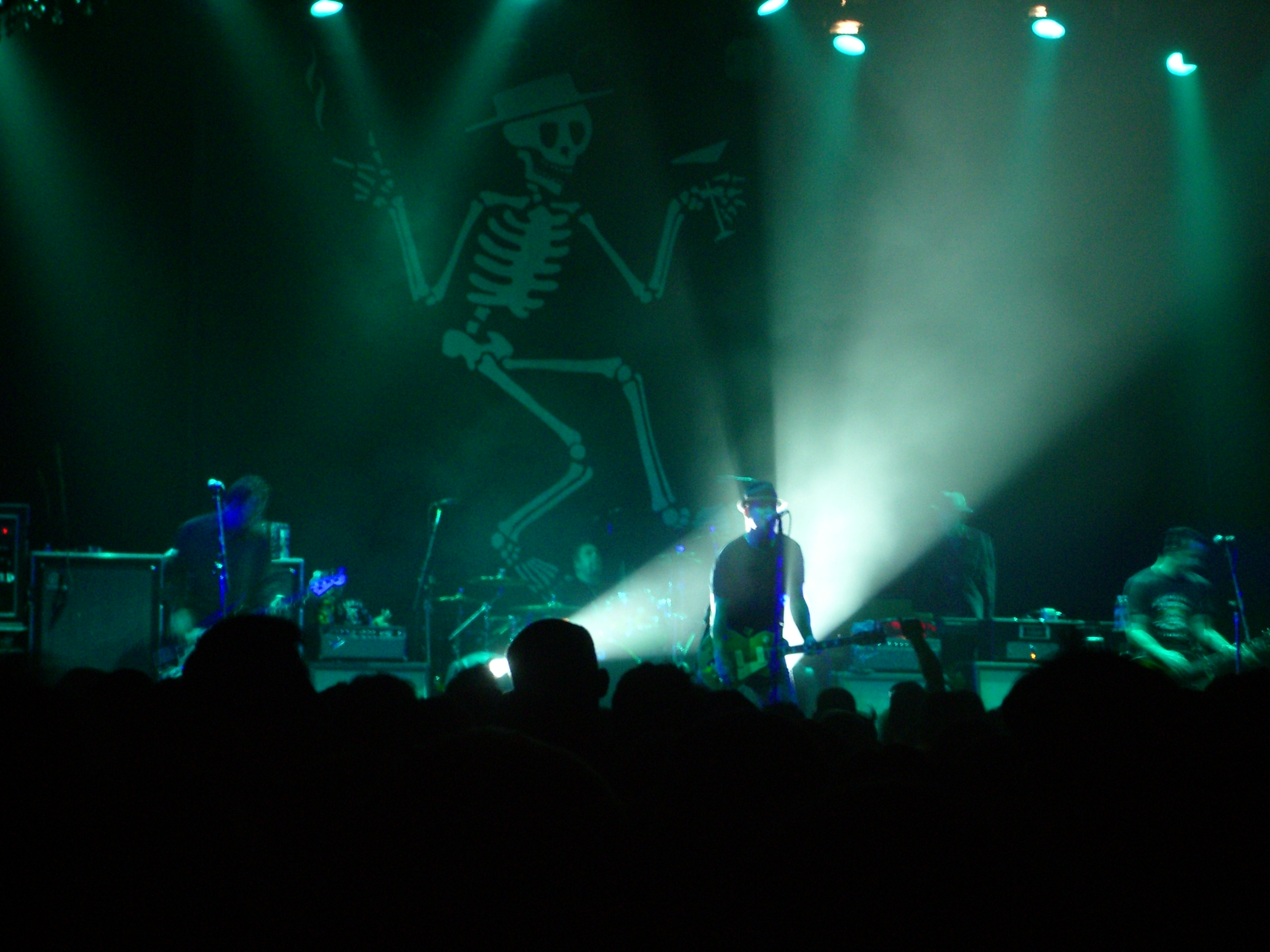 Social Distortion at the Fillmore